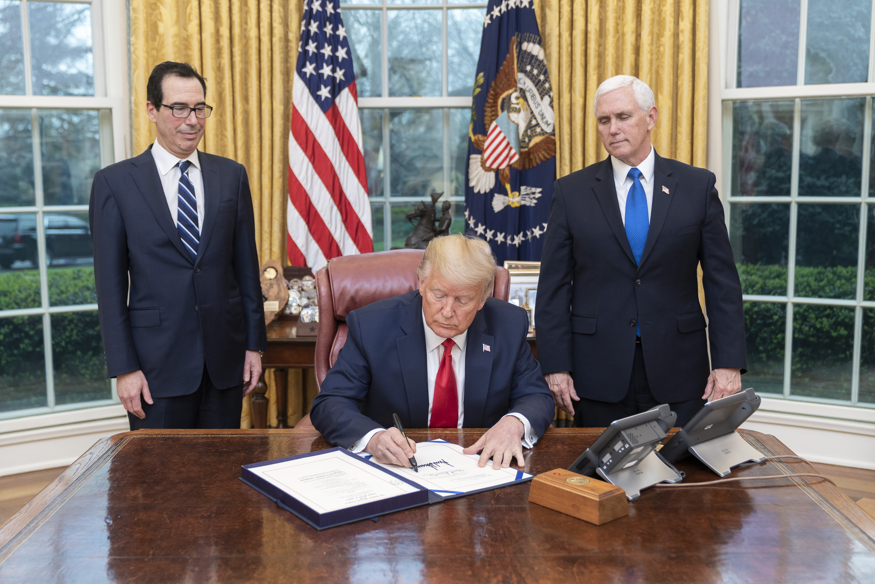 President Donald J. Trump is joined by Vice President Mike Pence and Secretary of the Treasury Steven Mnuchin as he signs H.R. 6201, the Families First Coronavirus Response Act, Wednesday, March 18, 2020, in the Oval Office of the White House. (Official White House Photo by Shealah Craighead)